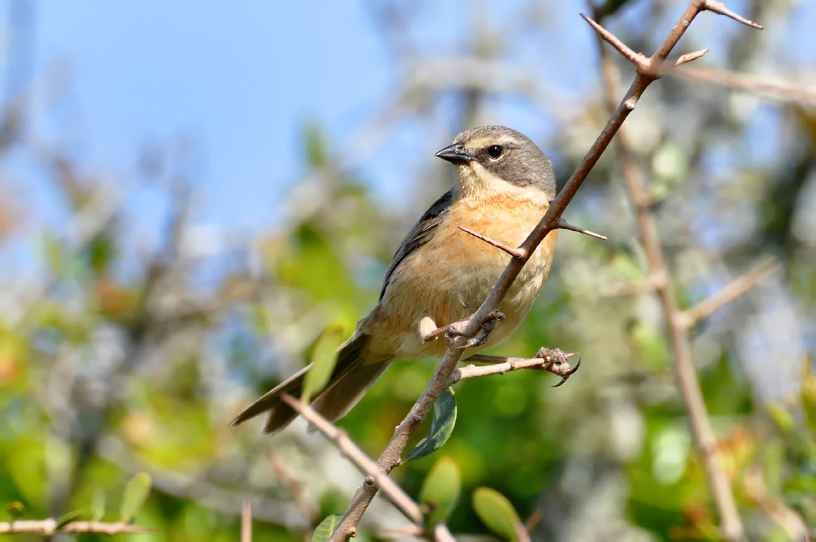 A Long-tailed Reed-finch in Rocha, Uruguay.